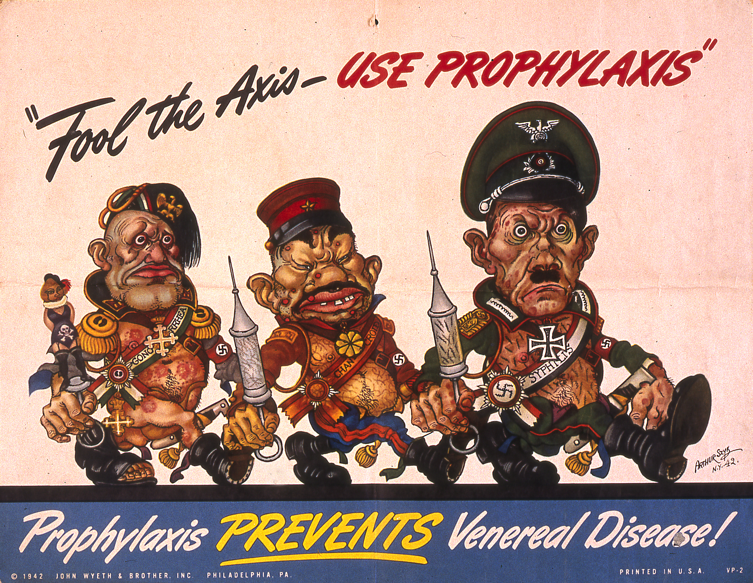 Arthur Szyk, 1942, Fool the Axis Use Prophylaxis (poster). The master of political caricature, unloads both barrels on World War II’s Terrible Threesome: Mussolini, Tojo, and Hitler. In this public service announcement designed to protect American G.I.’s from the ravages of venereal disease, he portrays the Axis leaders as already in the advanced stages of Syphilis and Gonorrhea. They are an odious mess of chancroids and festering blisters. Both Tojo and Hitler clutch hypodermic syringes the size of missiles, while Mussolini parades a wanton harlot puppet upon whose lower body parts is displayed a skull and crossbones.“Prophylaxis Prevents Venereal Disease” reads the lower headline. Certainly such an irreverent take on what as always been a serious problem for soldiers, must have been met with delight by our boys “over there”.